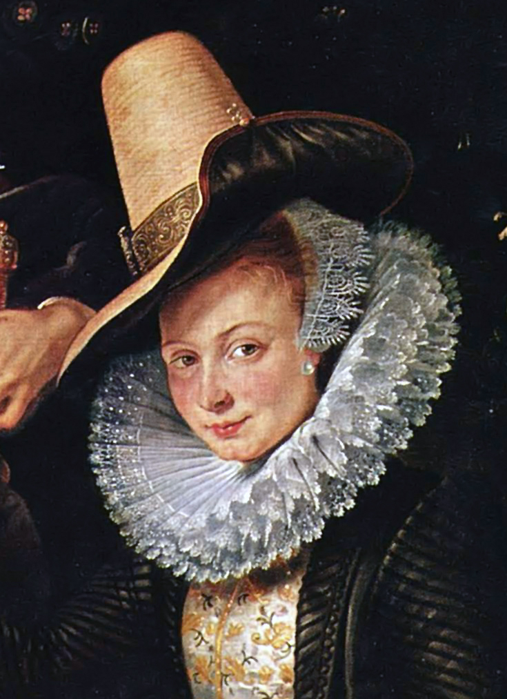 Isabella Brandt by Rubens